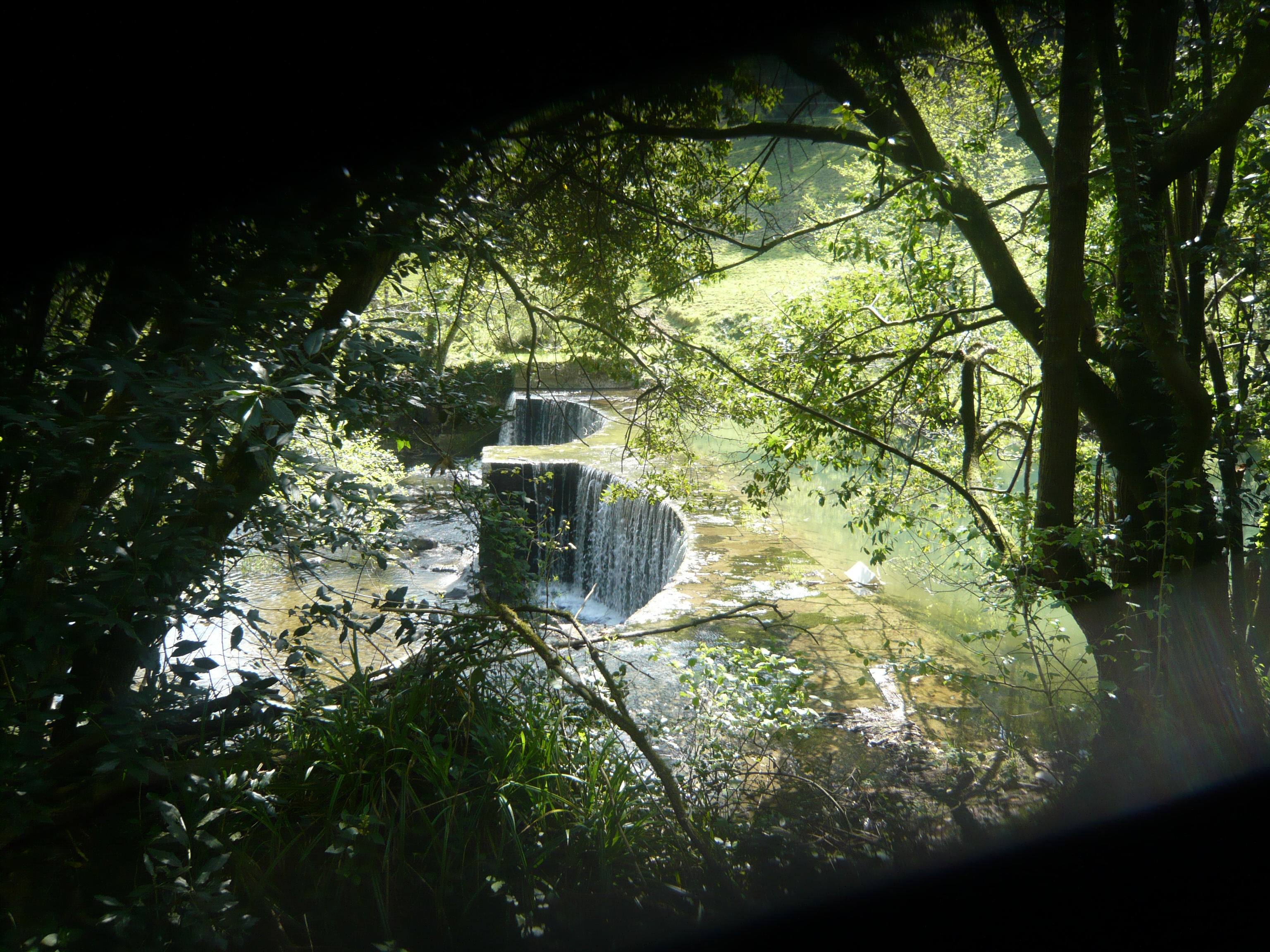 Pedro Bernardo de Villarreal's dam in Lea river, Lekeitio, Basque Country